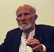 Theologian Stanley Hauerwas participates in a symposium on Sept. 17, 2015, at Augustana College in Rock Island, Illinois, the institution where he first began teaching in the late 1960s.